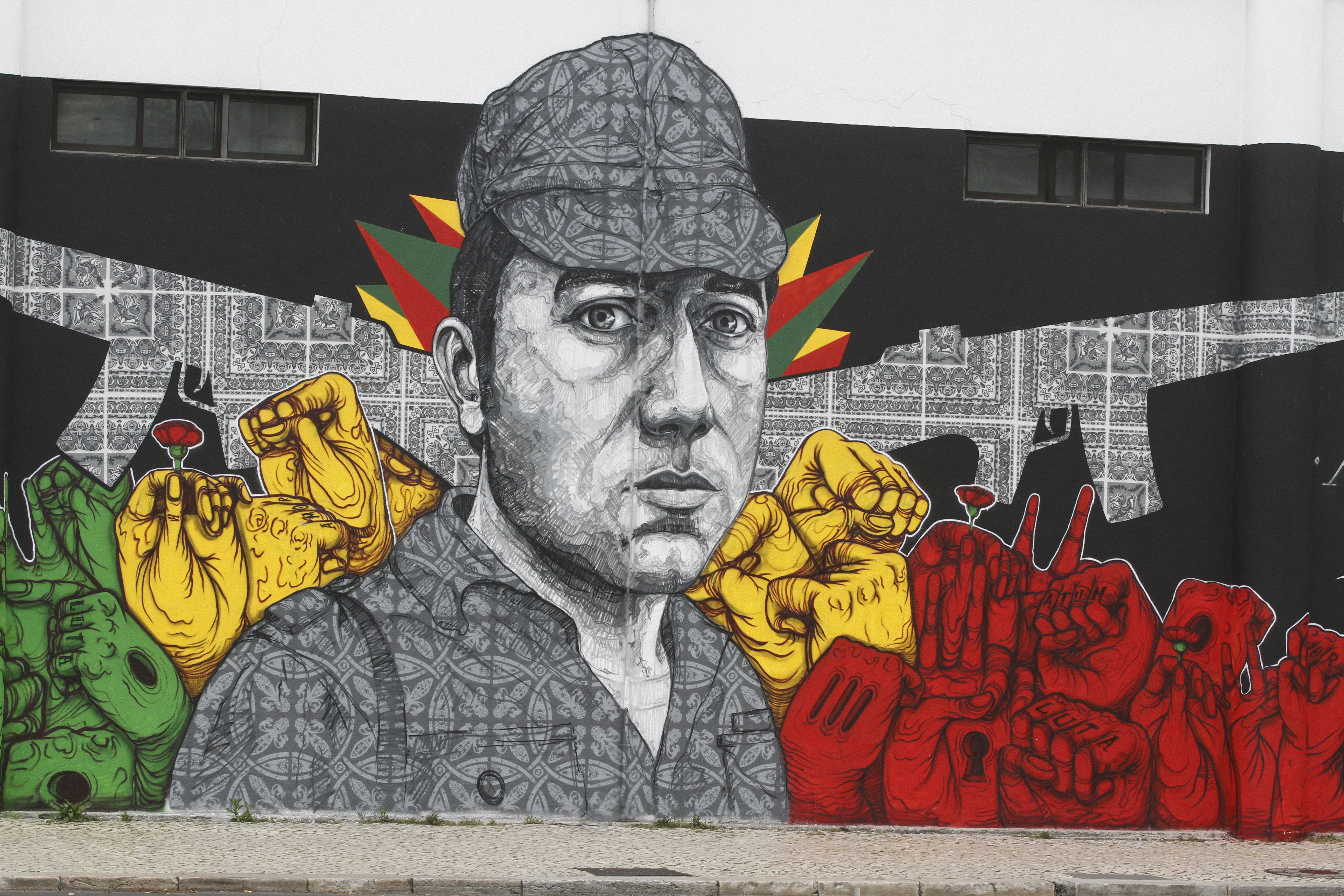 Graffiti of the leader of the Carnation Revolution April 1974, Fernando José Salgueiro Maia, on a Lisbon wall, April 2014